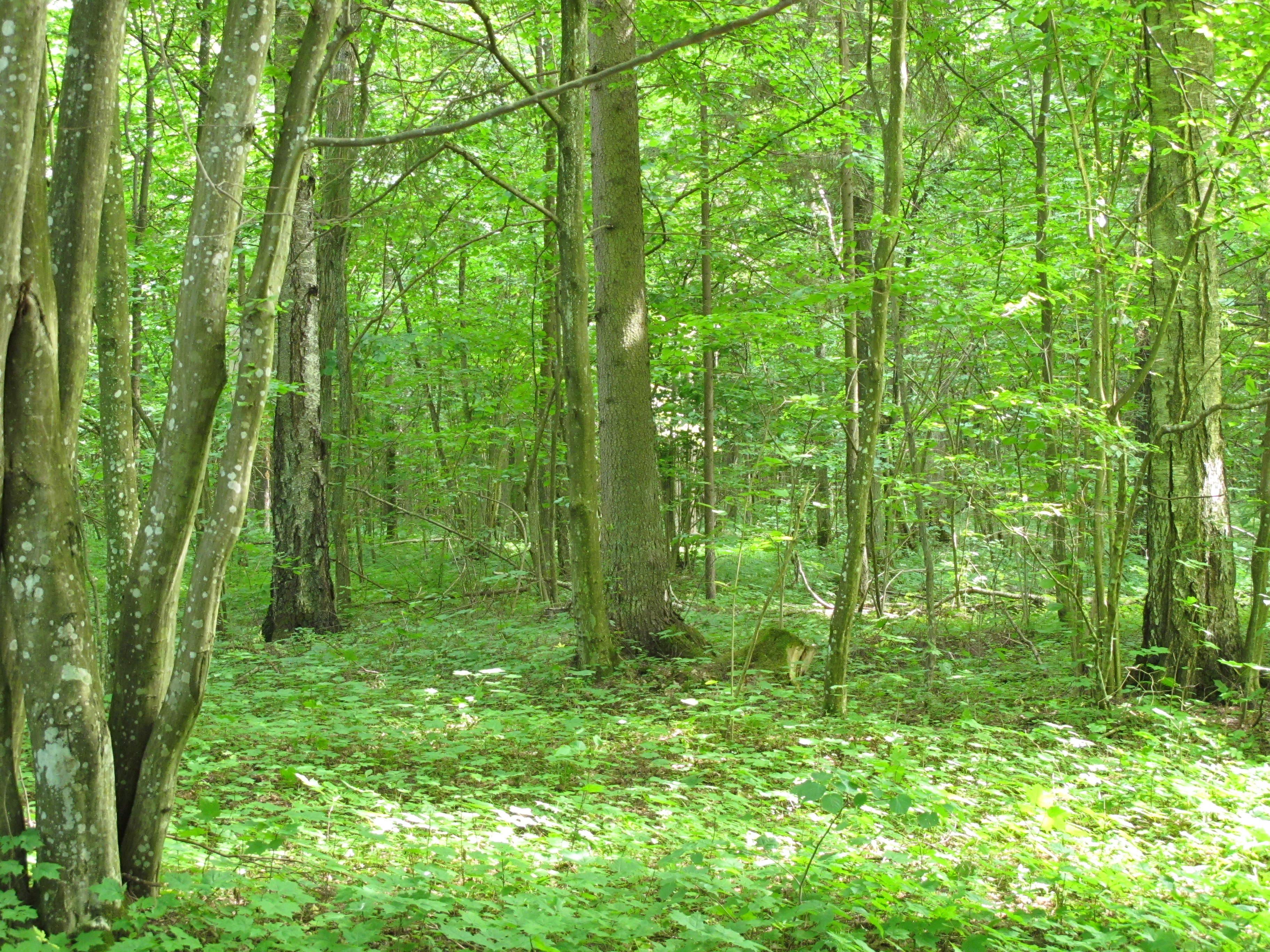 Forest in Jesionowe Góry nature reserve at Knyszyn Forest on the „Góry Jezionowe” area, seen from a road to Wilcza Jama forester's lodge (gm. Czarna Białostocka, podlaskie, Poland)